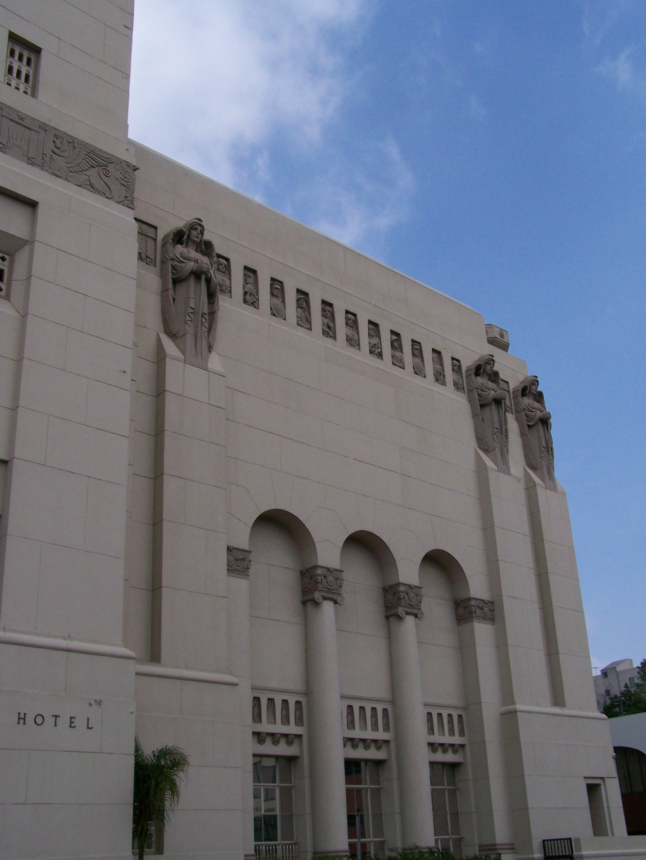 Corner of Elk's Lodge No. 99 / Park Plaza Hotel Building, courtesy (c) 2008 by Molly Berke.